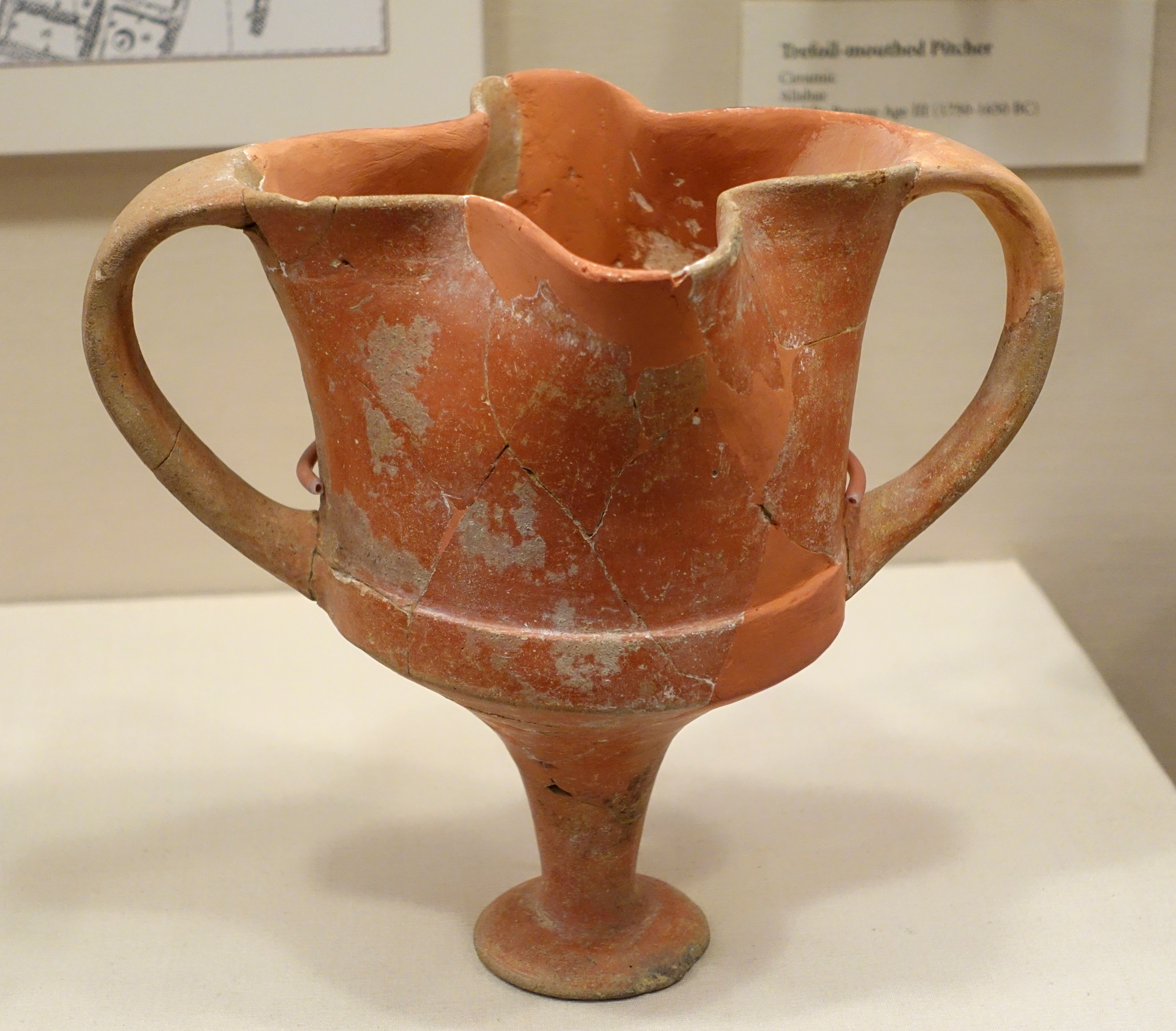 Exhibit in the Oriental Institute Museum, University of Chicago, Chicago, Illinois, USA. This work is old enough so that it is in the public domain.